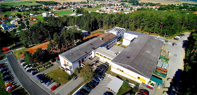 Aerial view of Burgenländisches Schulungszentrum